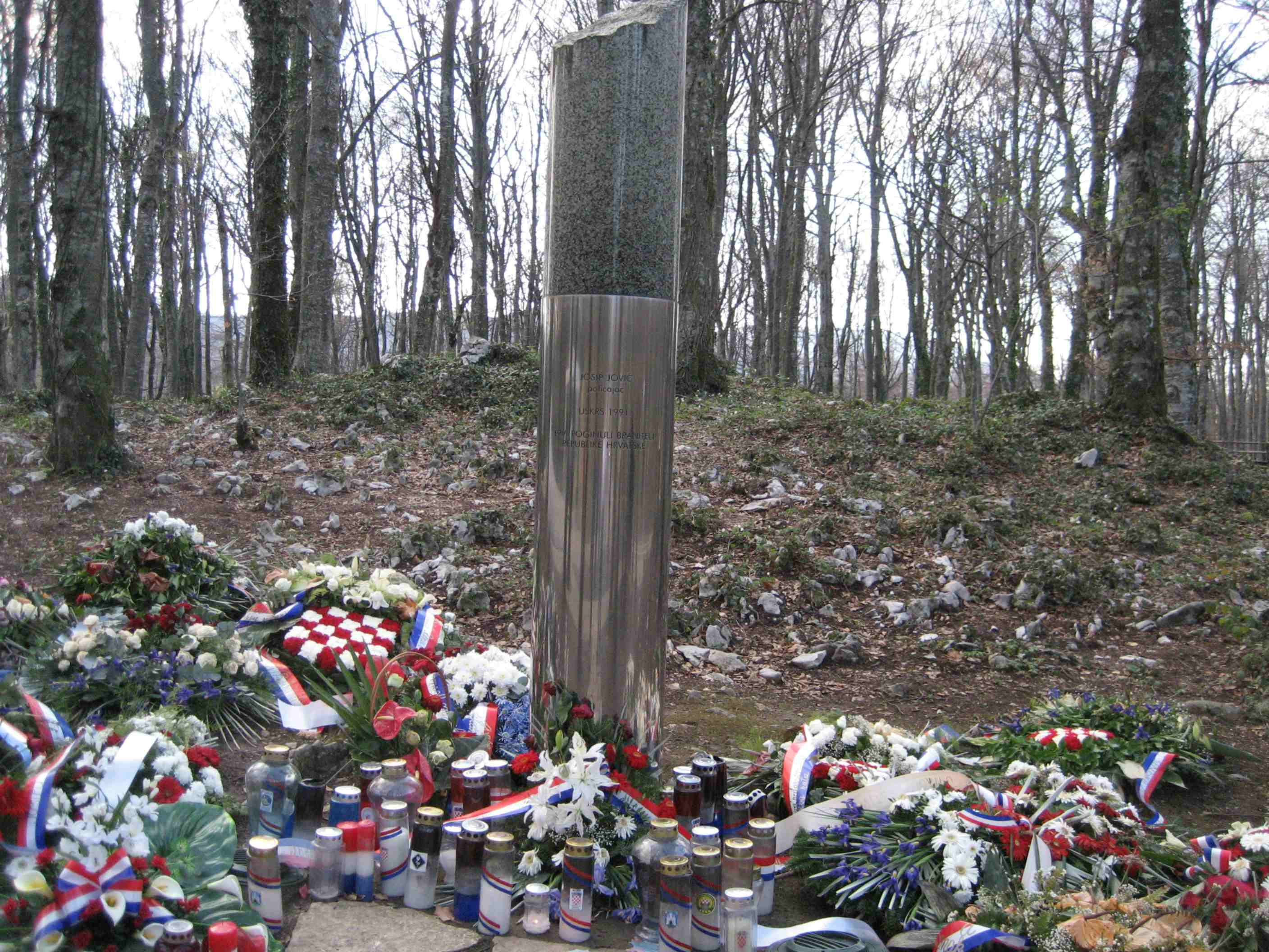 Place of death of Josip Jović, Croatian policeman, the first victims of the Croatian Homeland War.